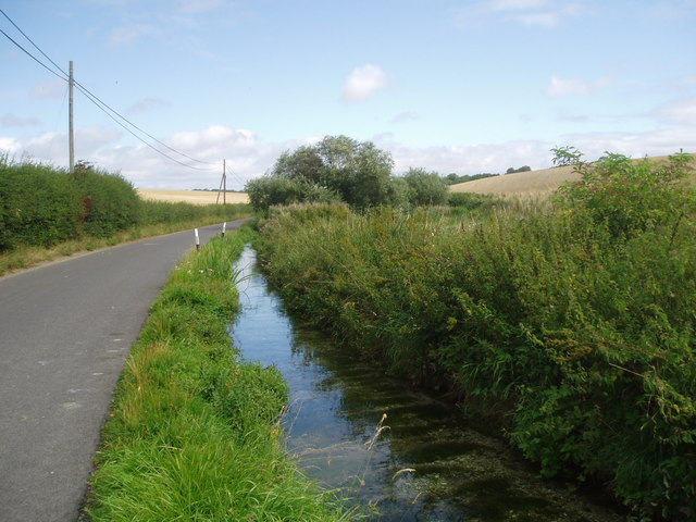 On the road between Mead End & Broad Chalke. A clear chalk stream